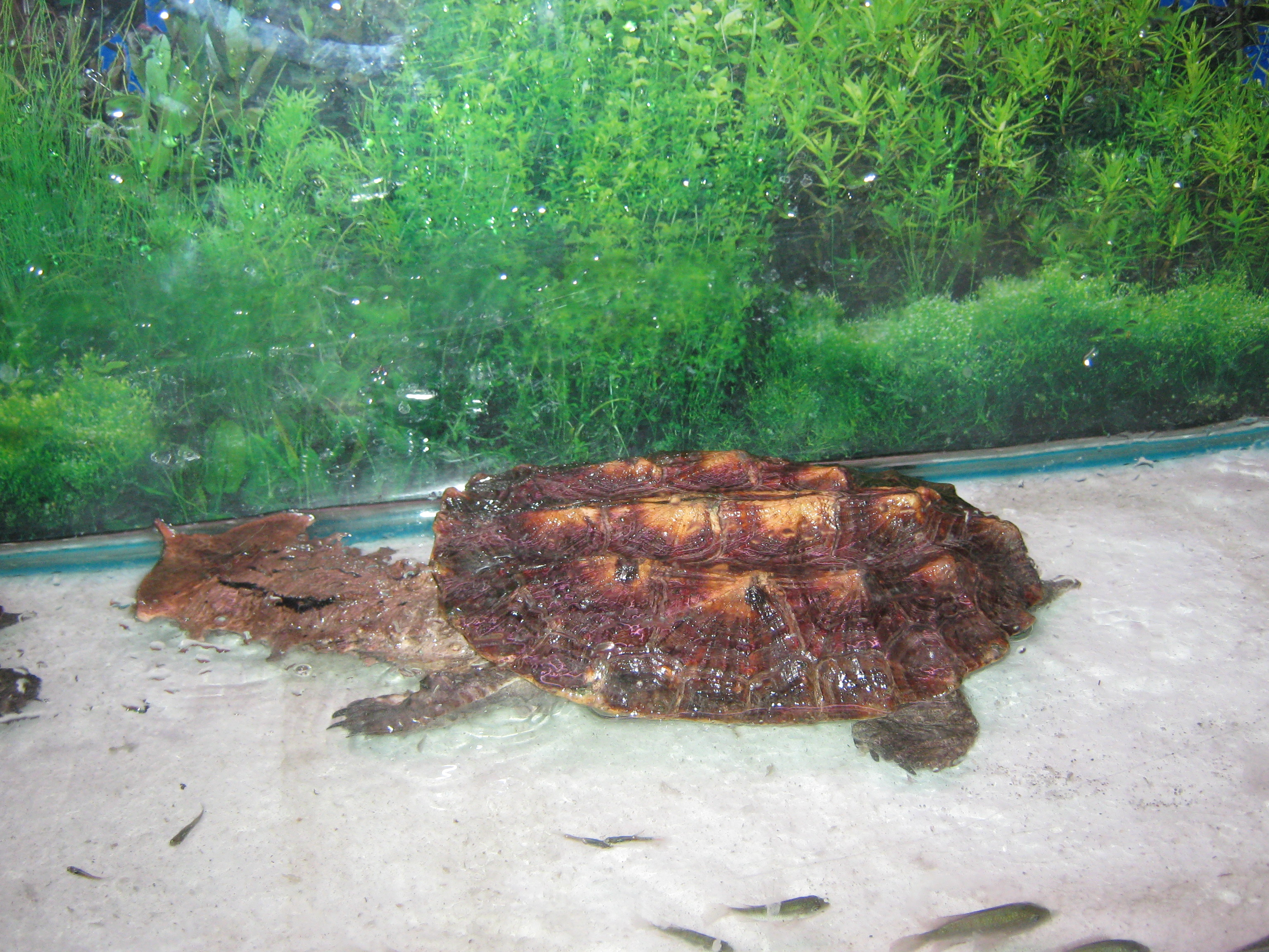 Mata mata (Chelus fimbriatus) at Huachipa Zoo in Lima, Peru.